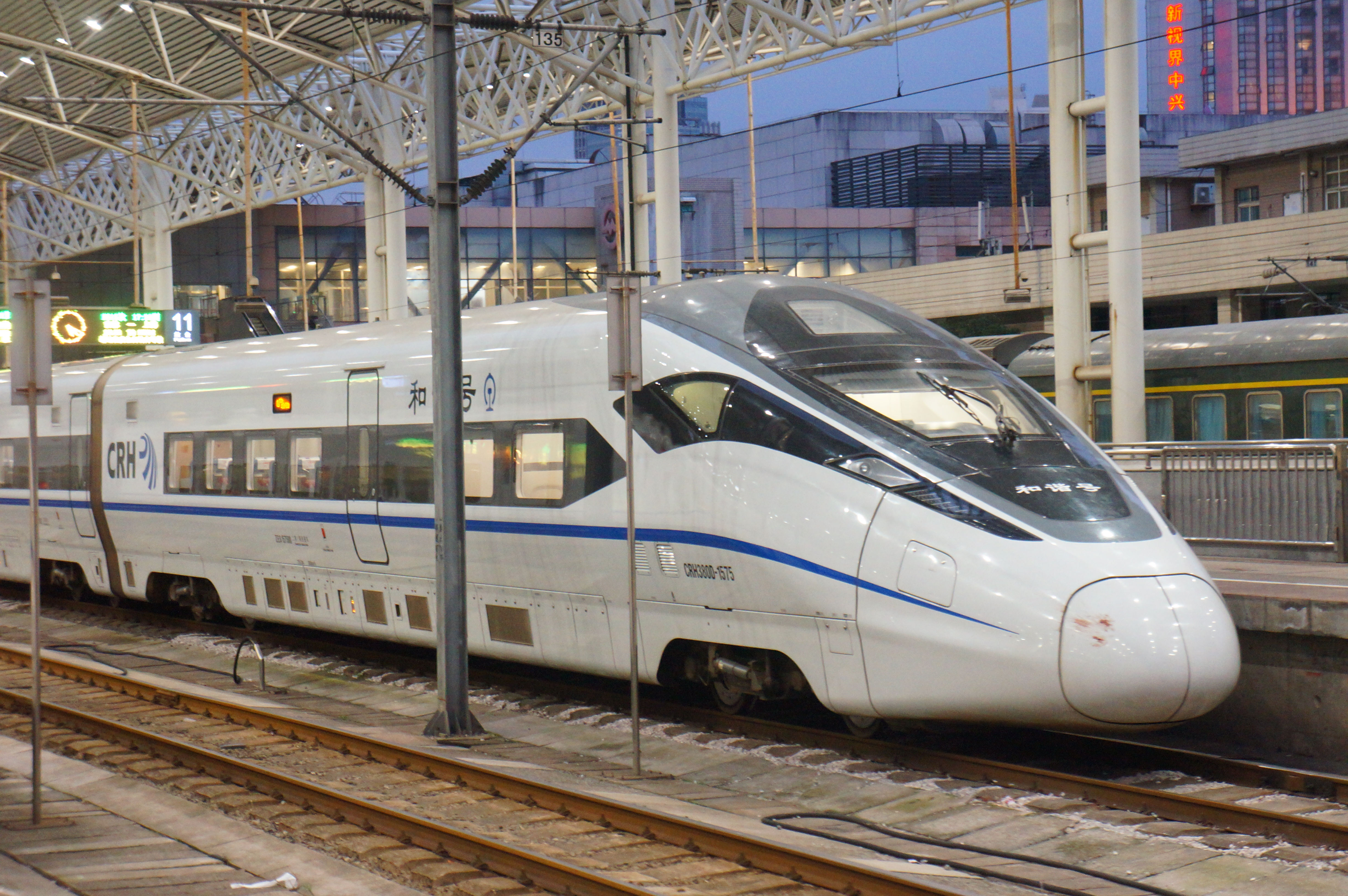 201701 CRH380D-1575 (G7024) at Shanghai Station